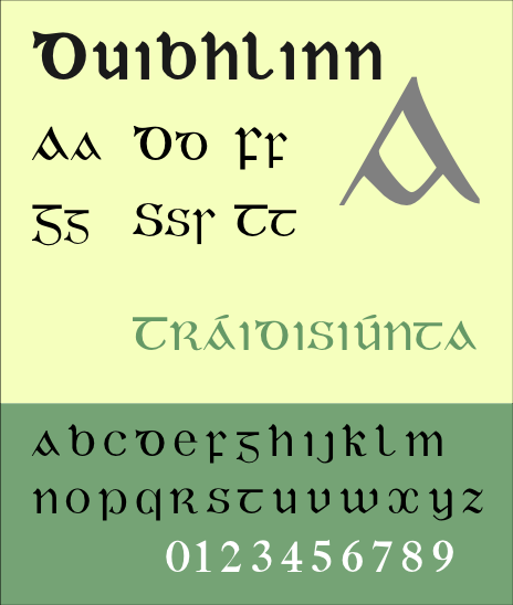 Sample of Duibhlinn